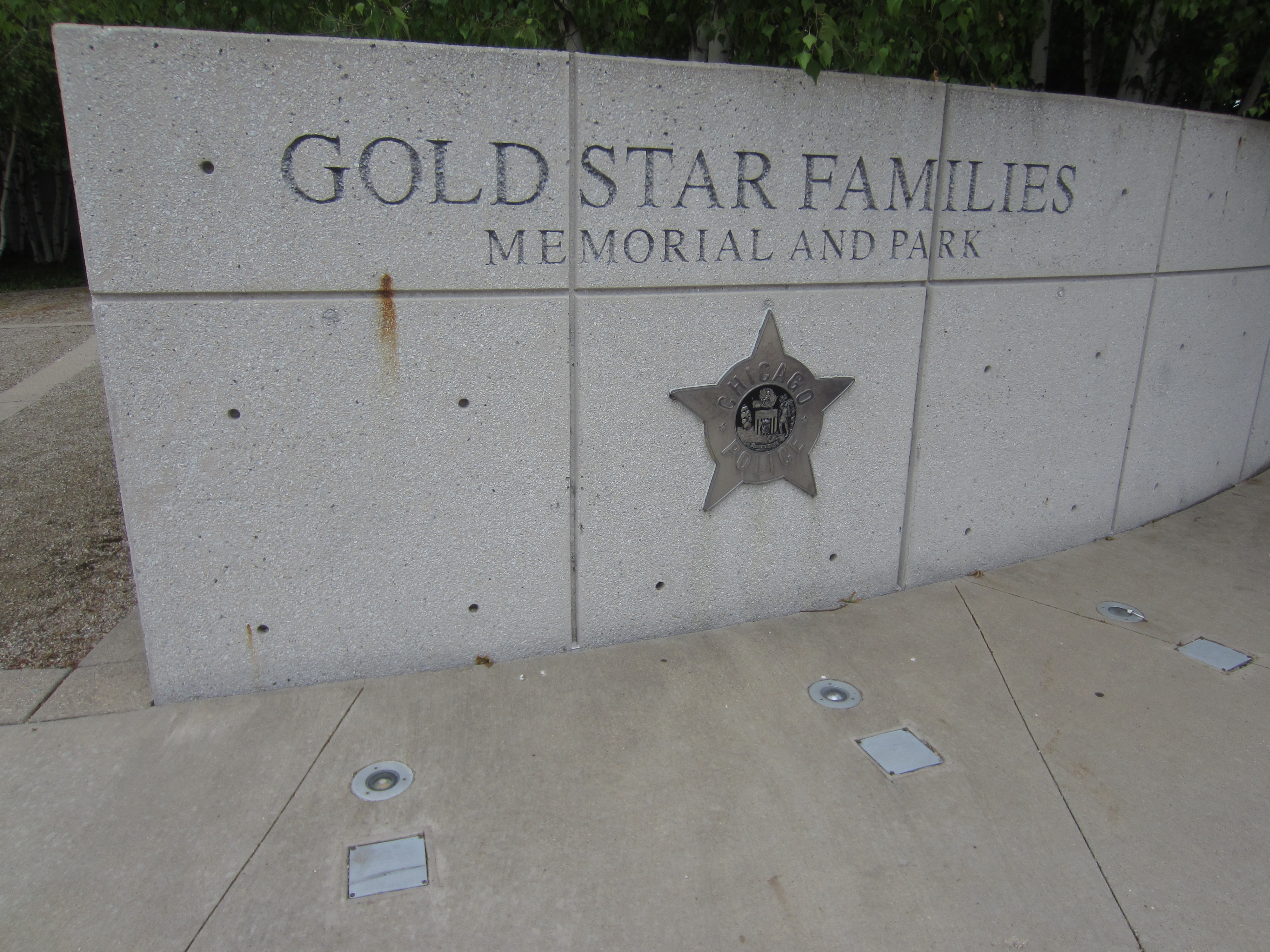 Chicago, Illinois, June 2015